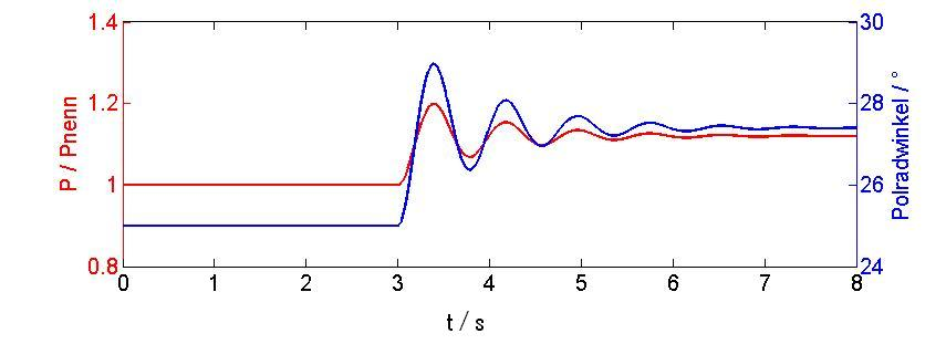 Step response of generator-active-power and angular displacement after a load-step